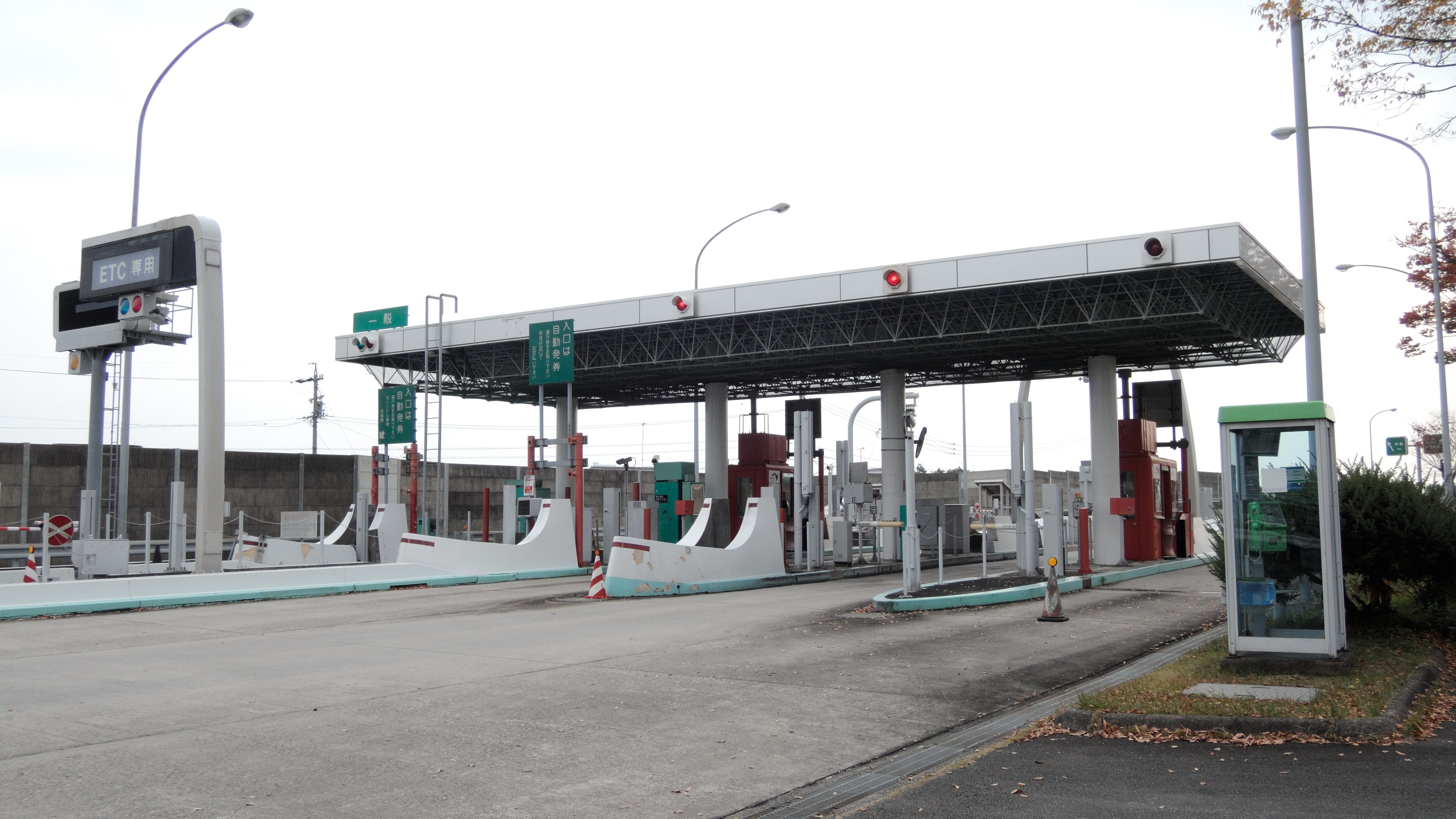 Geino Inter Change, Mie Prefecture, Japan